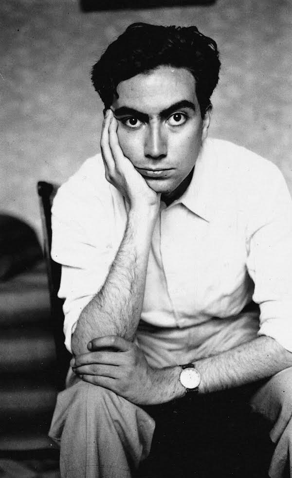 Autoportrait d'Antoni Tàpies, vers 1945-1947 © Photography: Fundació Antoni Tàpies, Barcelona